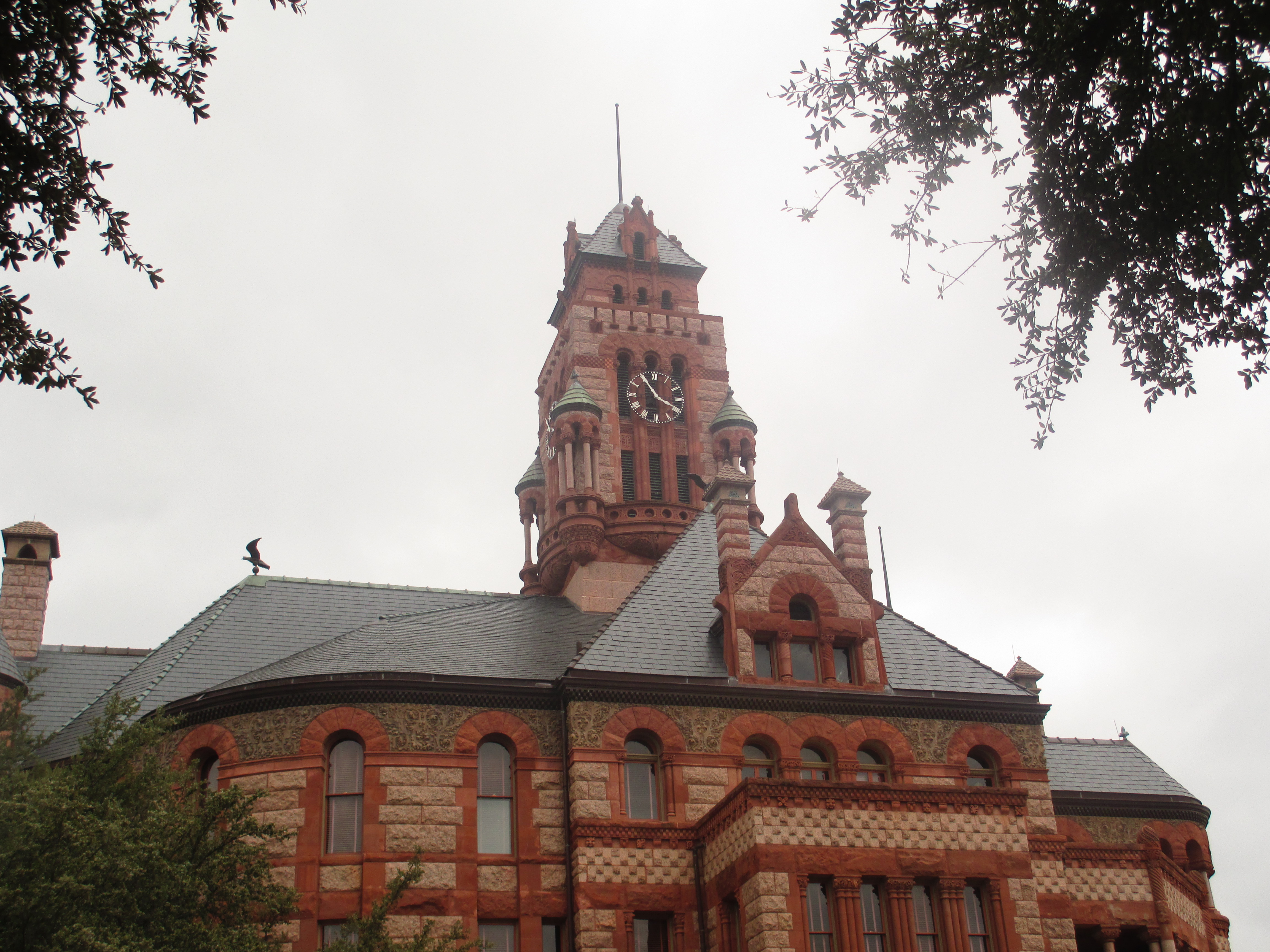 Revised photo of Ellis County Courthouse in Waxahachie.